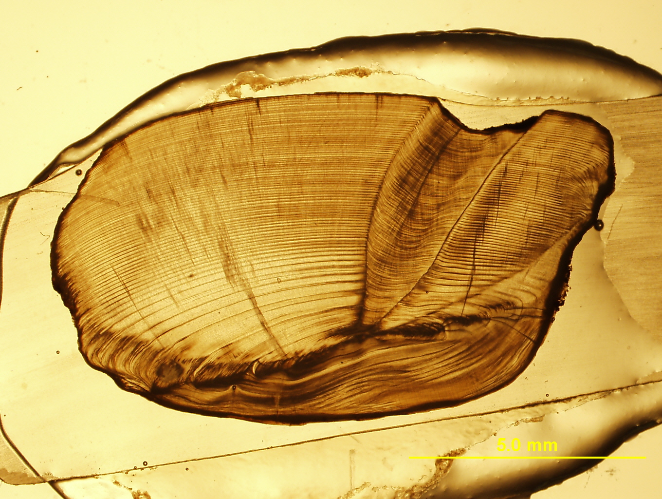 This is the oldest aged freshwater drum (Aplodinotus grunniens) sagittal otolith (74 years). The otolith came from an archaeological site on Doty Island, Neenah, WI on the shore of Lake Winnebago. There were three specimens that were determined to be age 74.